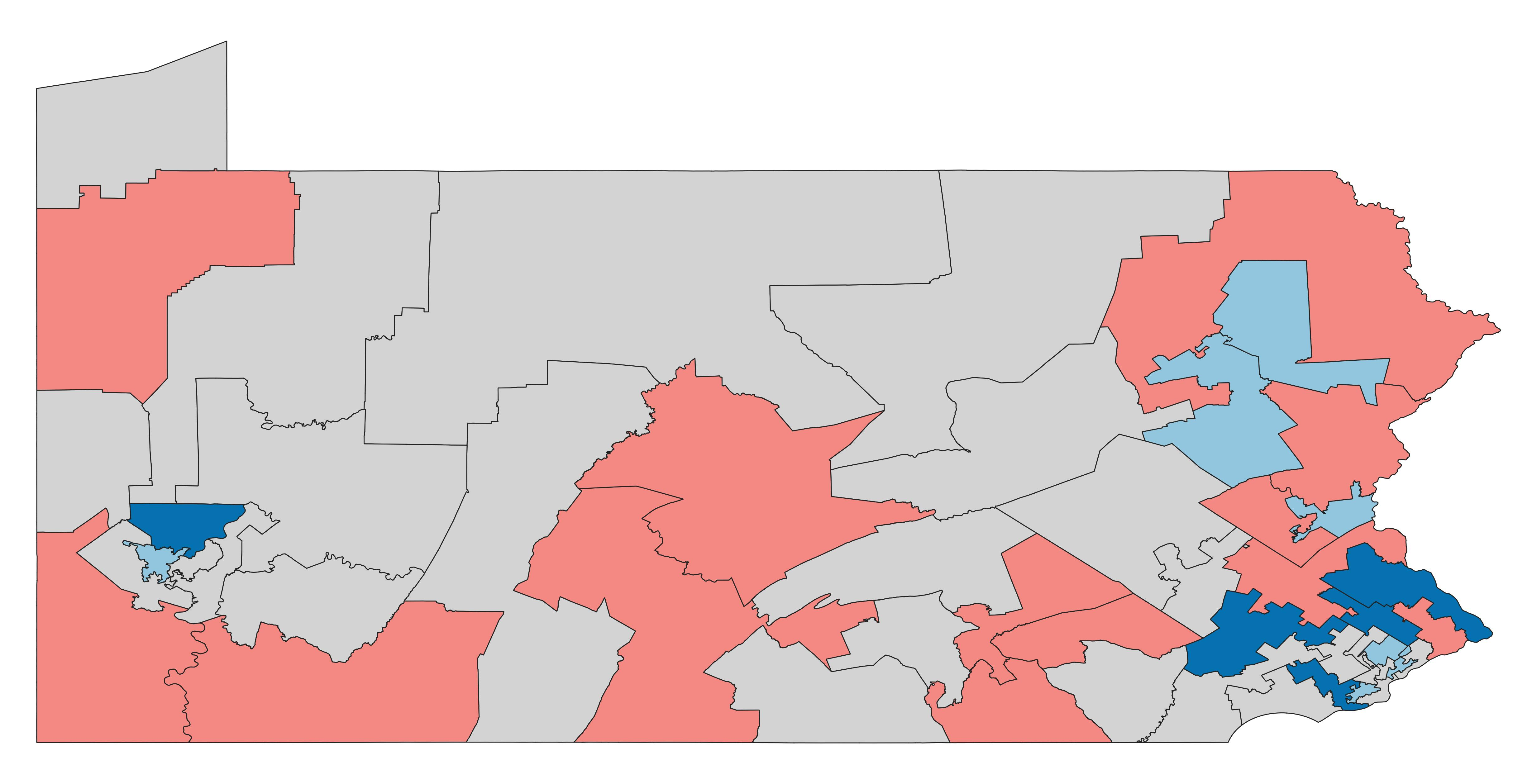 PA State Senate election results by district